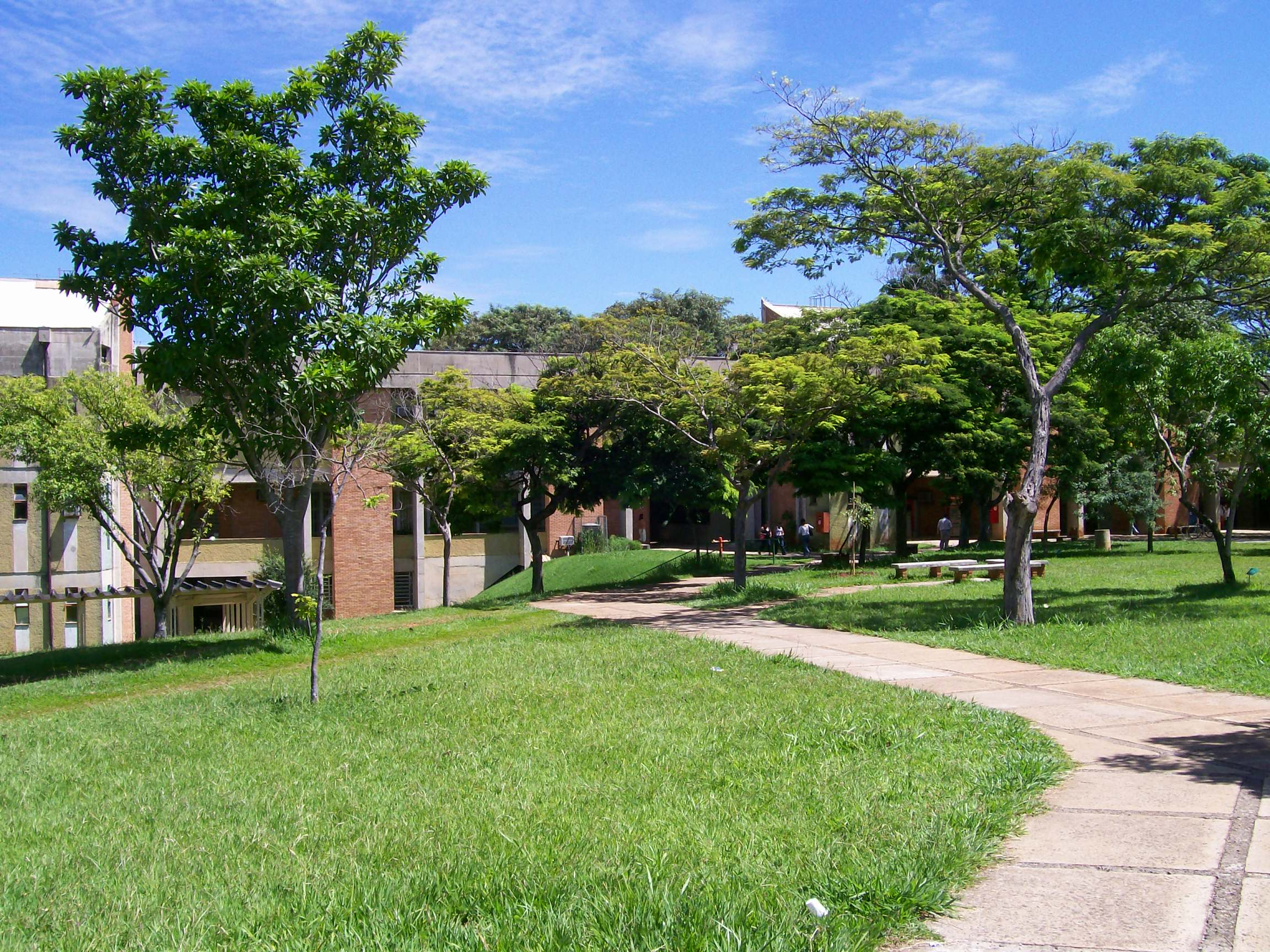 State University of Campinas - Biology Institute